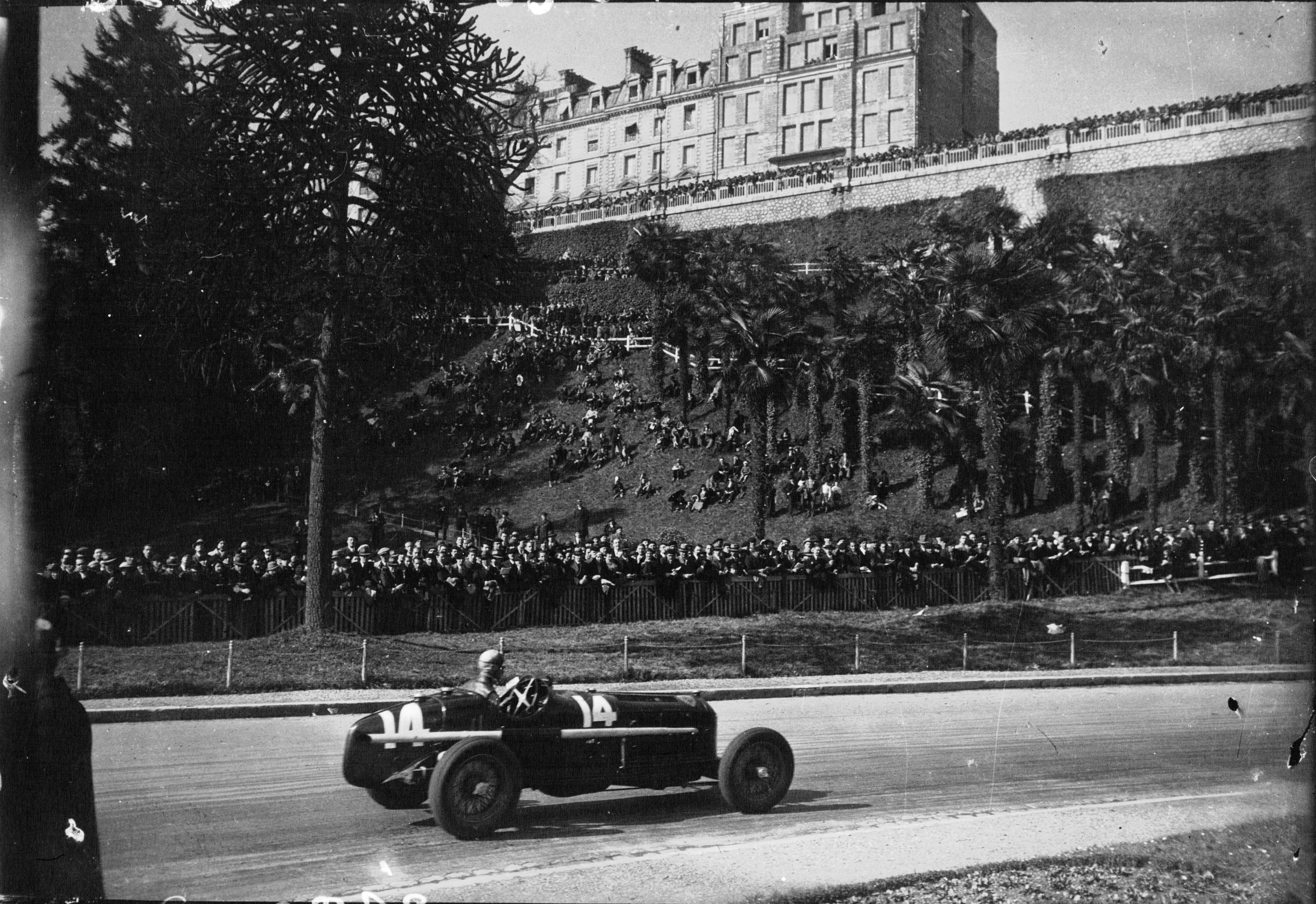 Tazio Nuvolari at the 1935 Grand Prix de Pau